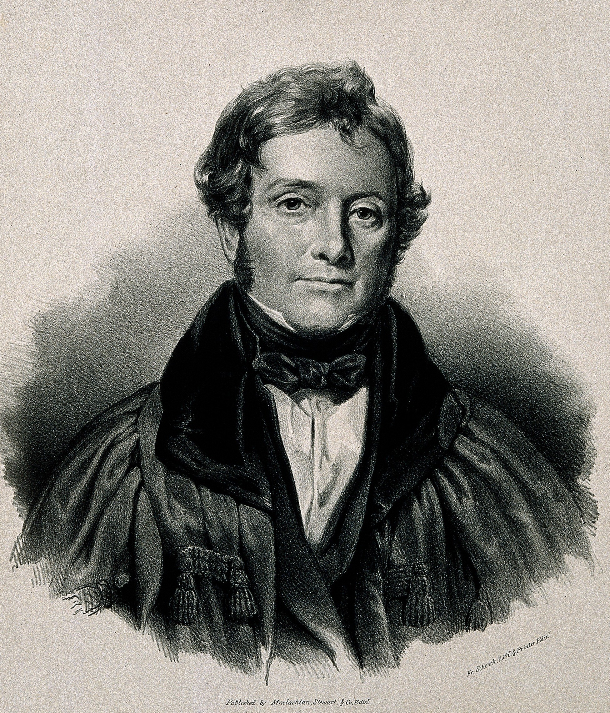 Thomas Stewart Traill FRSE PRCPE MWS RSSA (29 October 1781 – 30 July 1862) was a Scottish physician, chemist, mineralogist, meteorologist, zoologist and scholar of medical jurisprudence. He was the grandfather of the physicist, meteorologist and geologist Robert Traill Omond. Genre/Technique: Portrait prints. Lithographs. Subject name: Traill, Thomas Stewart, 1781-1862.